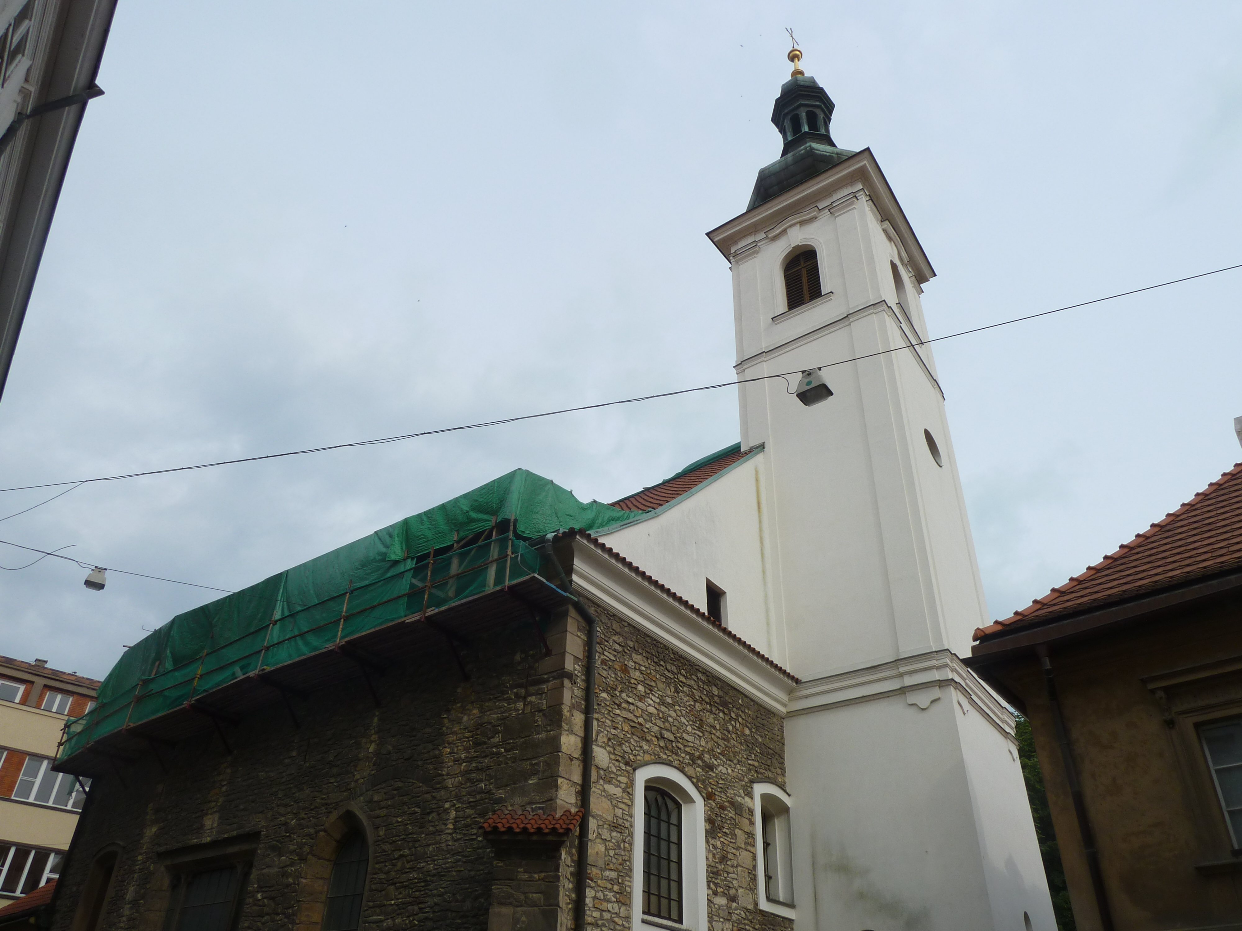 Evangelic church of St. Michael in Jircháře in Prague